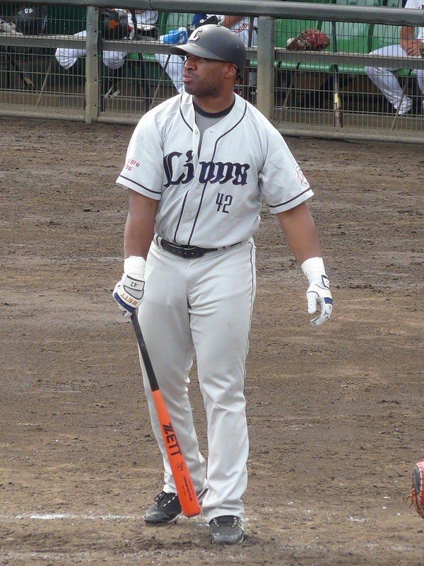 Dee Brown